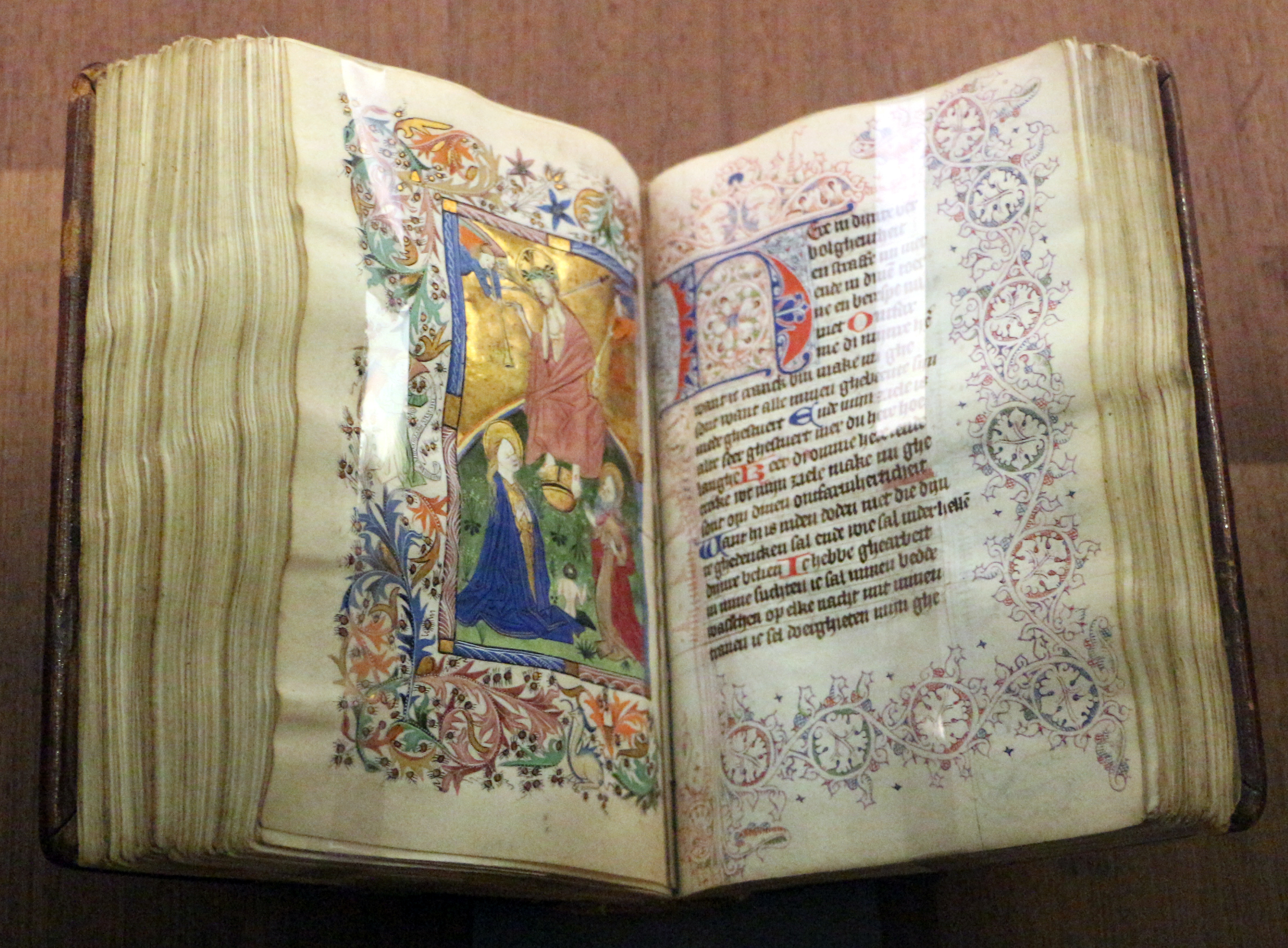 Books in the Museum Catharijneconvent